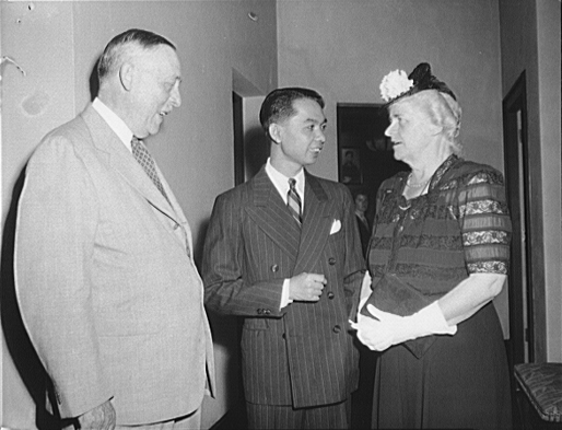 Washington, D.C. - Present at an informal reception at the Thai Legation in celebration of the nineteenth birthday of King Ananda of Thailand, who is currently residing in Switzerland, were, left to right, Dr. Eldon R. James, Foreign Affairs Advisor to the Advisor to the Thailand government from 1918-1924, Thai Minister Seni Pramoj, and Mrs. James.